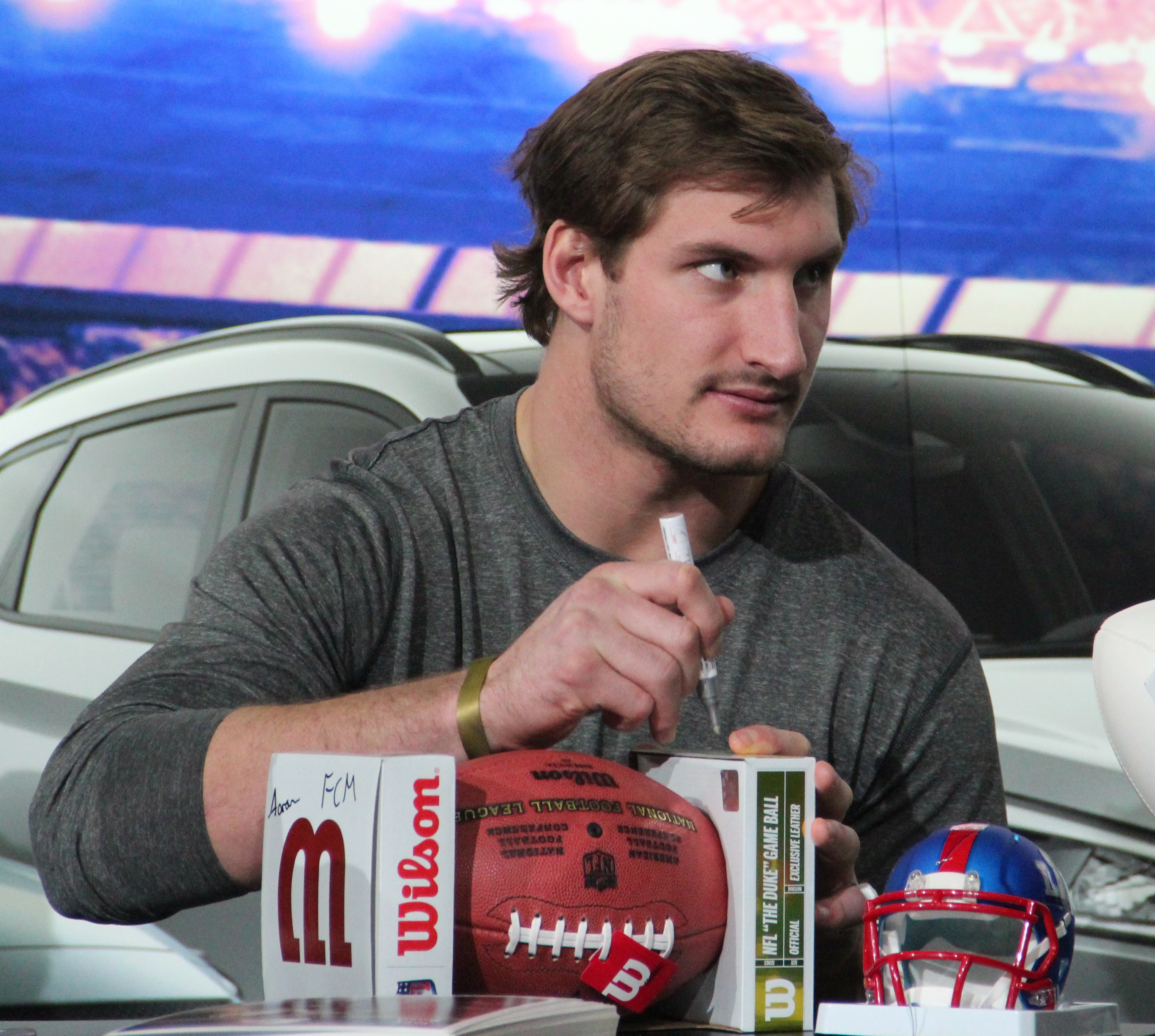 Joey Bosa at the Super Bowl Experience at Super Bowl LIII